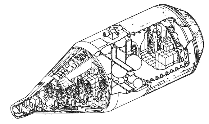 Big Gemini concept space station supply ship. August, 1969. (NASA)